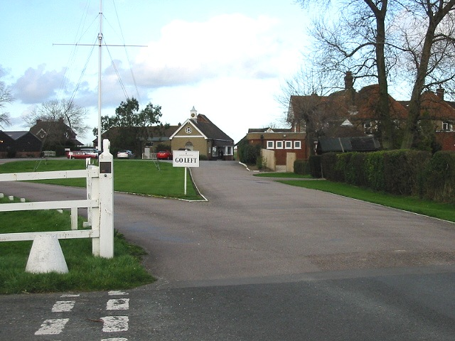 Entrance to Royal St George's Golf Club